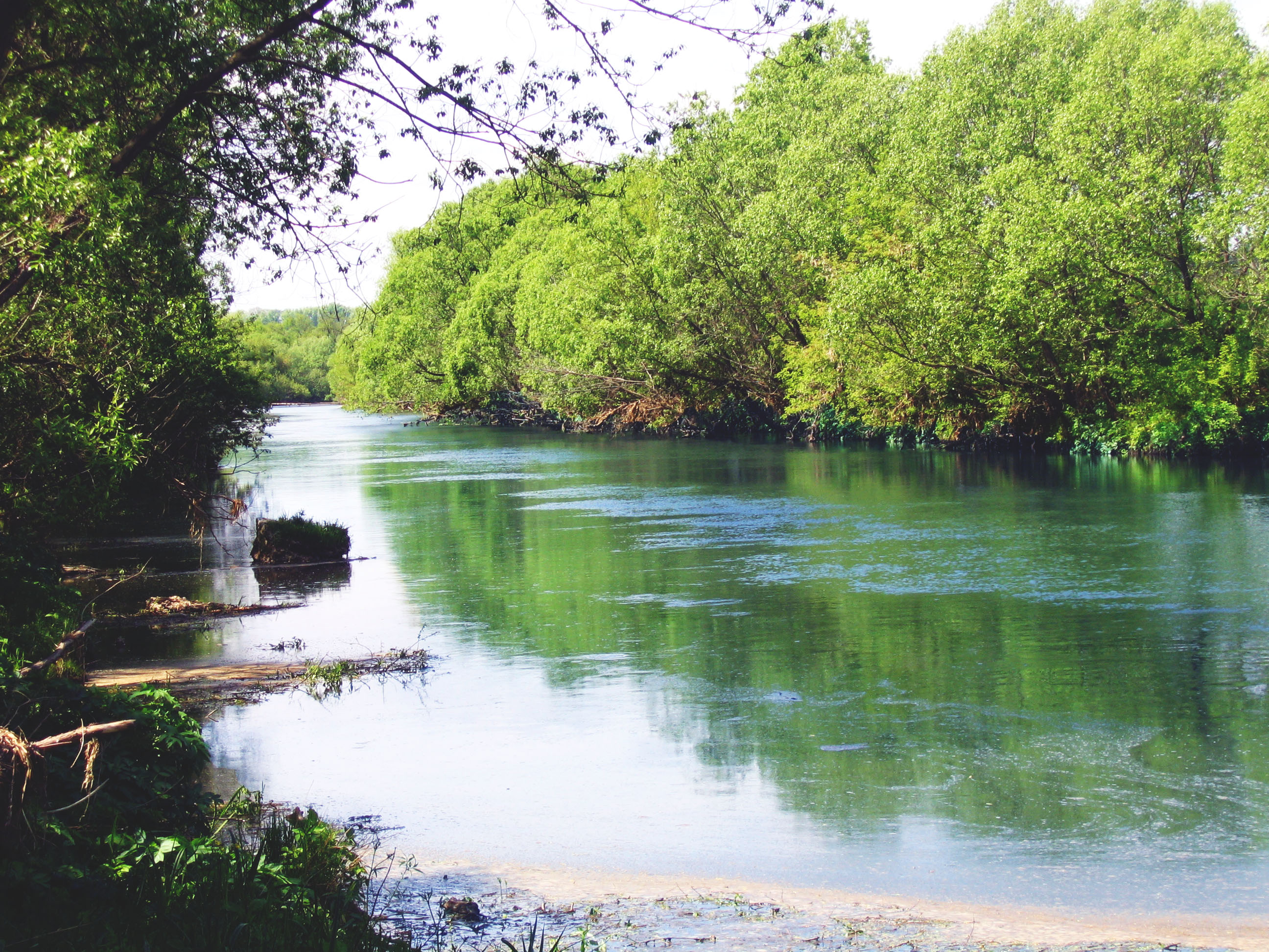 Близ деревни Тюково